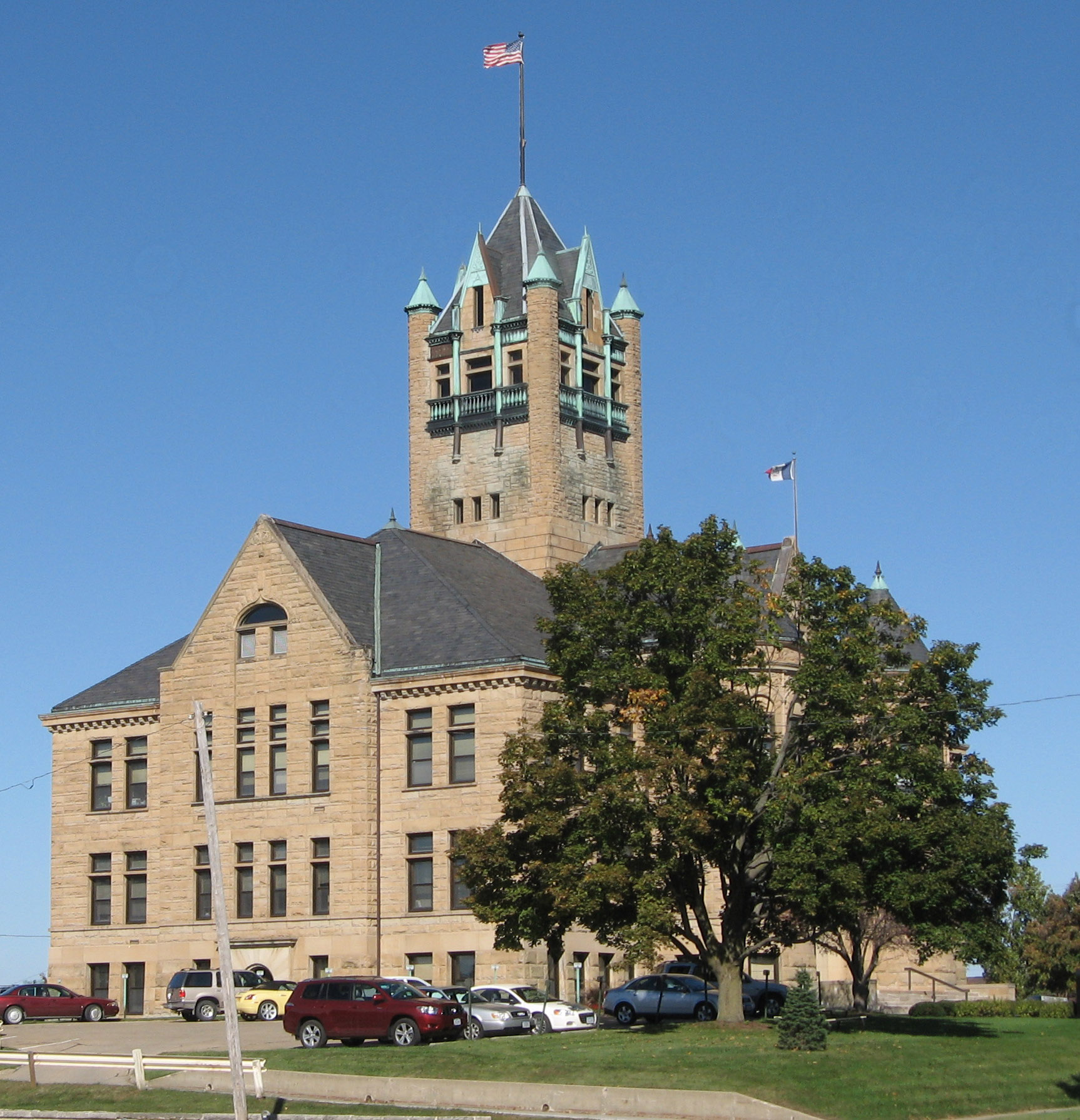 Johnson County Courthouse, Iowa City, Iowa. Bill Whittaker (talk) 19:17, 26 May 2009 (UTC)